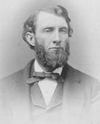 Portrait of American political scientist John Burgess (1844–1931).